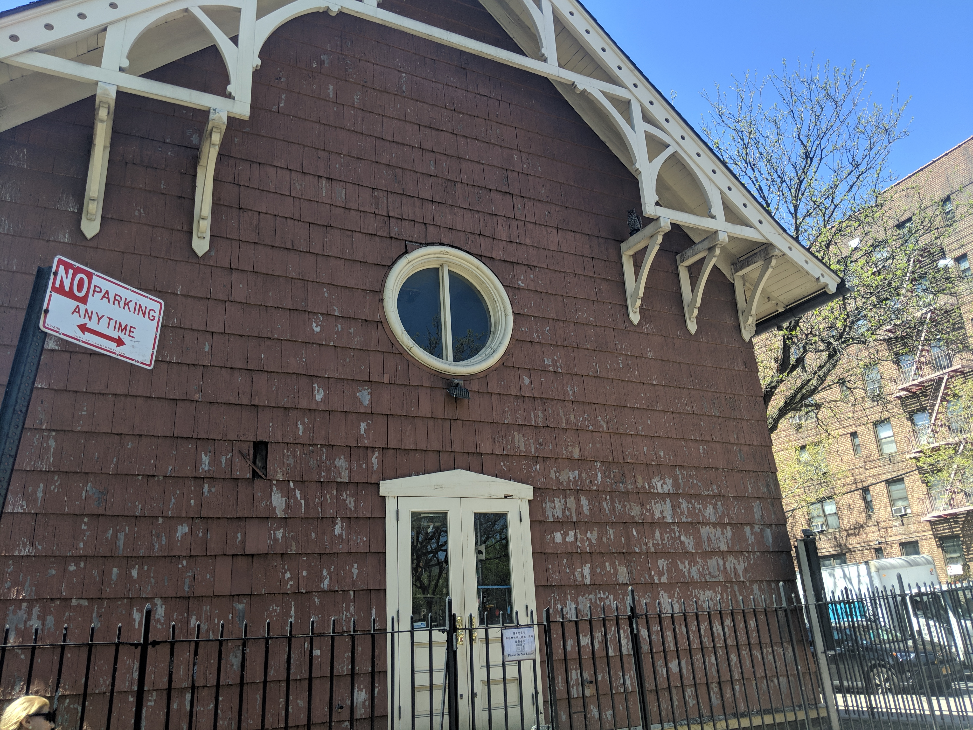 Old Saint James Espicopal Church (now Old Saint James Parish Hall; 86-02 Broadway) Built in 1735-36, the Church is known for its association with the early Colonial settlement of Queens and with the mission activity of the Church of England in the American colonies. It is a NYC landmark